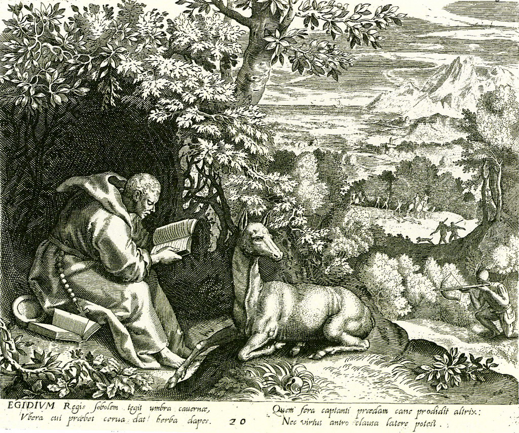 Artwork in Iconotheca Valvasoriana